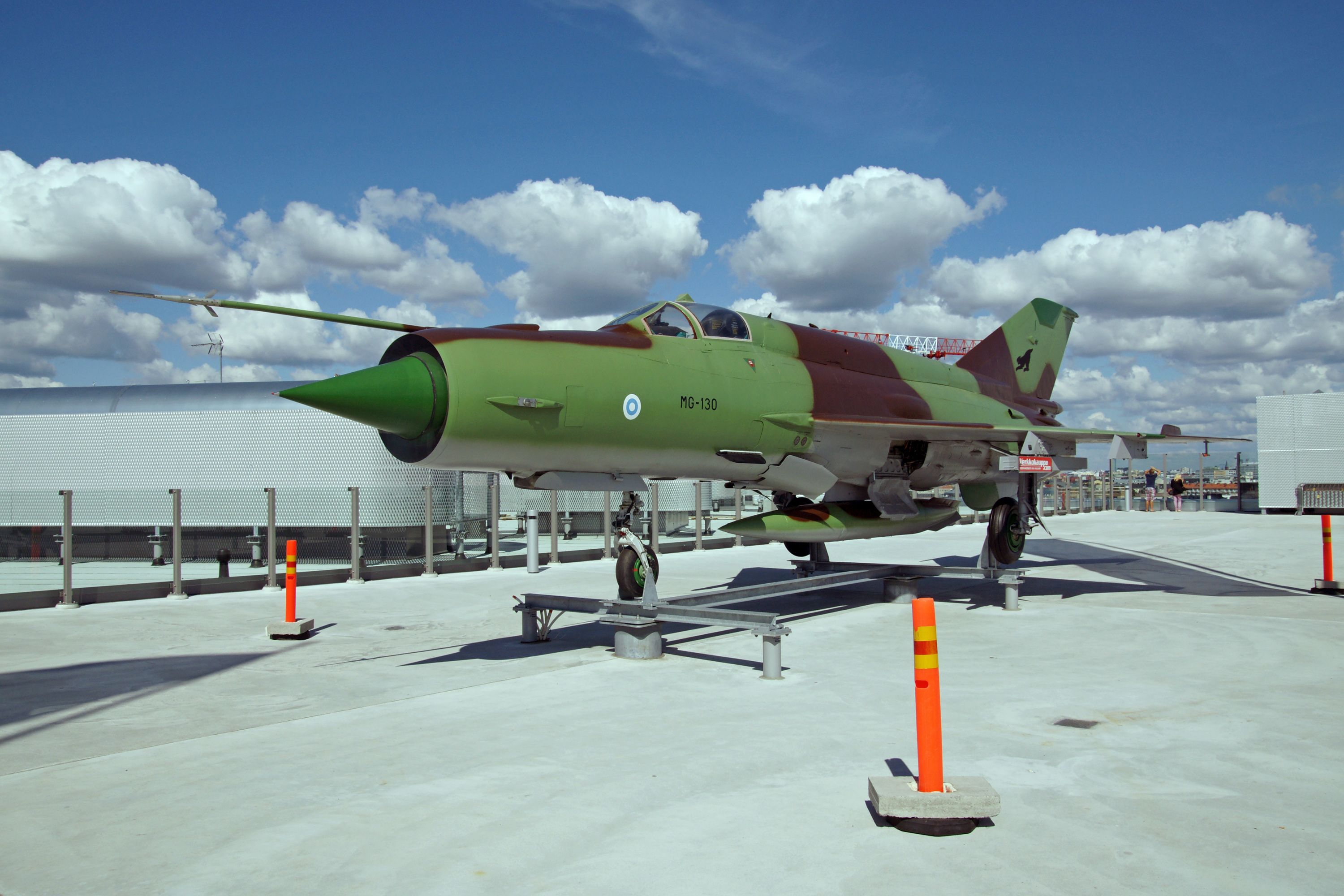 MiG-21bis (MG-130) fighter on display in Verkkokauppa building observation terace in Jätkäsaari.